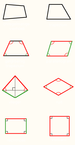 Line drawings of various quadrilaterals, unlabelled.